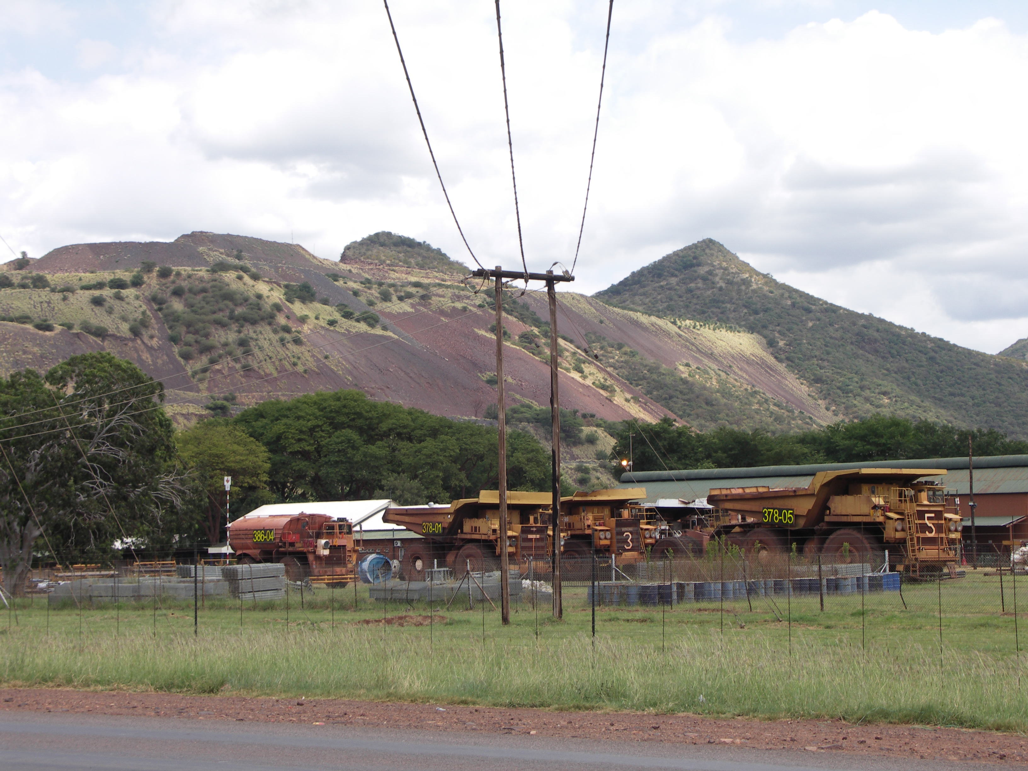 Iron ore mining at Thabazimbi, Limpopo, South Africa